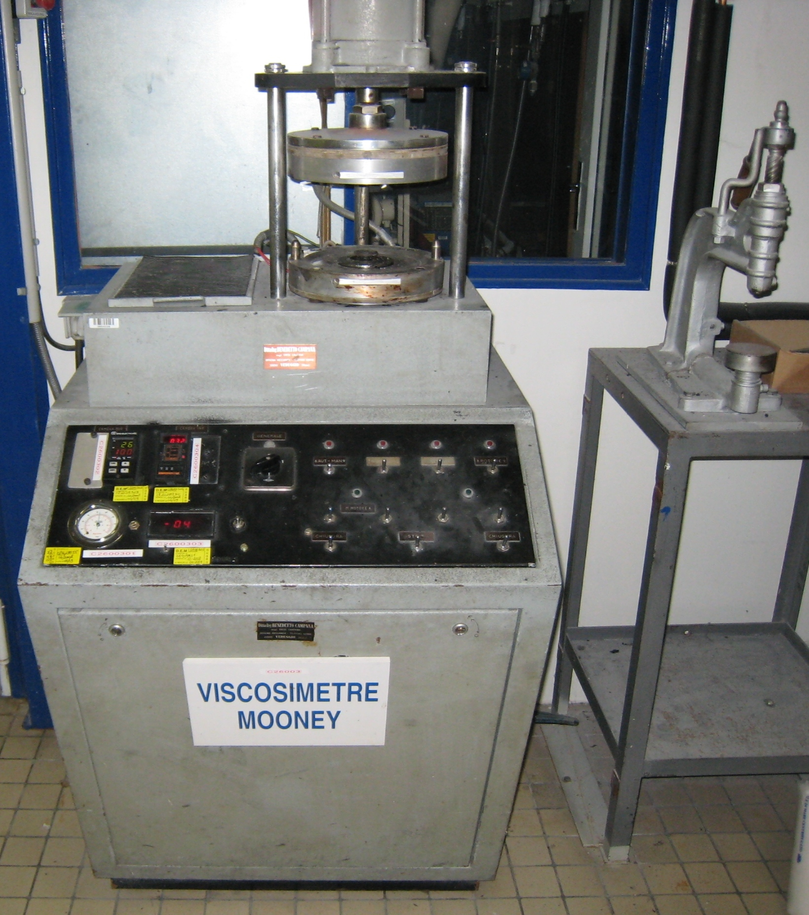 Mooney viscometer is a testing equipment commonly used in the rubber industry. It was developed by Melvin Mooney.